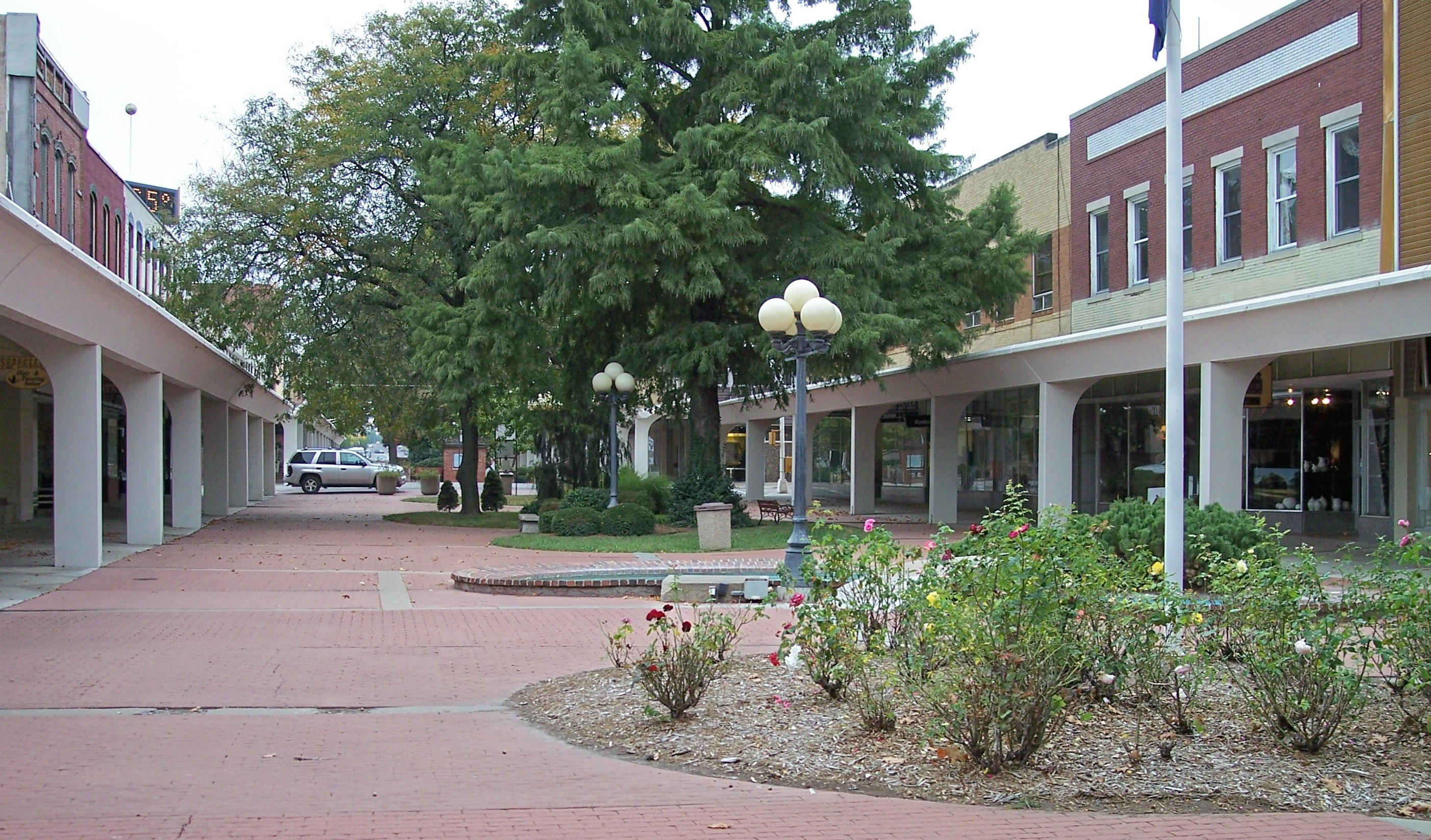 A pedestrian mall on Commerical Street in downtown Atchison, Kansas